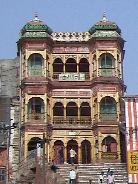 See Varanasi Development Cooperation Handbook/Stories/Responsible Development - Varanasi The Varanasi Heritage Dossier Kautilya Society Play media Vrinda Dar - How we got involved in heritage protection of Varanasi